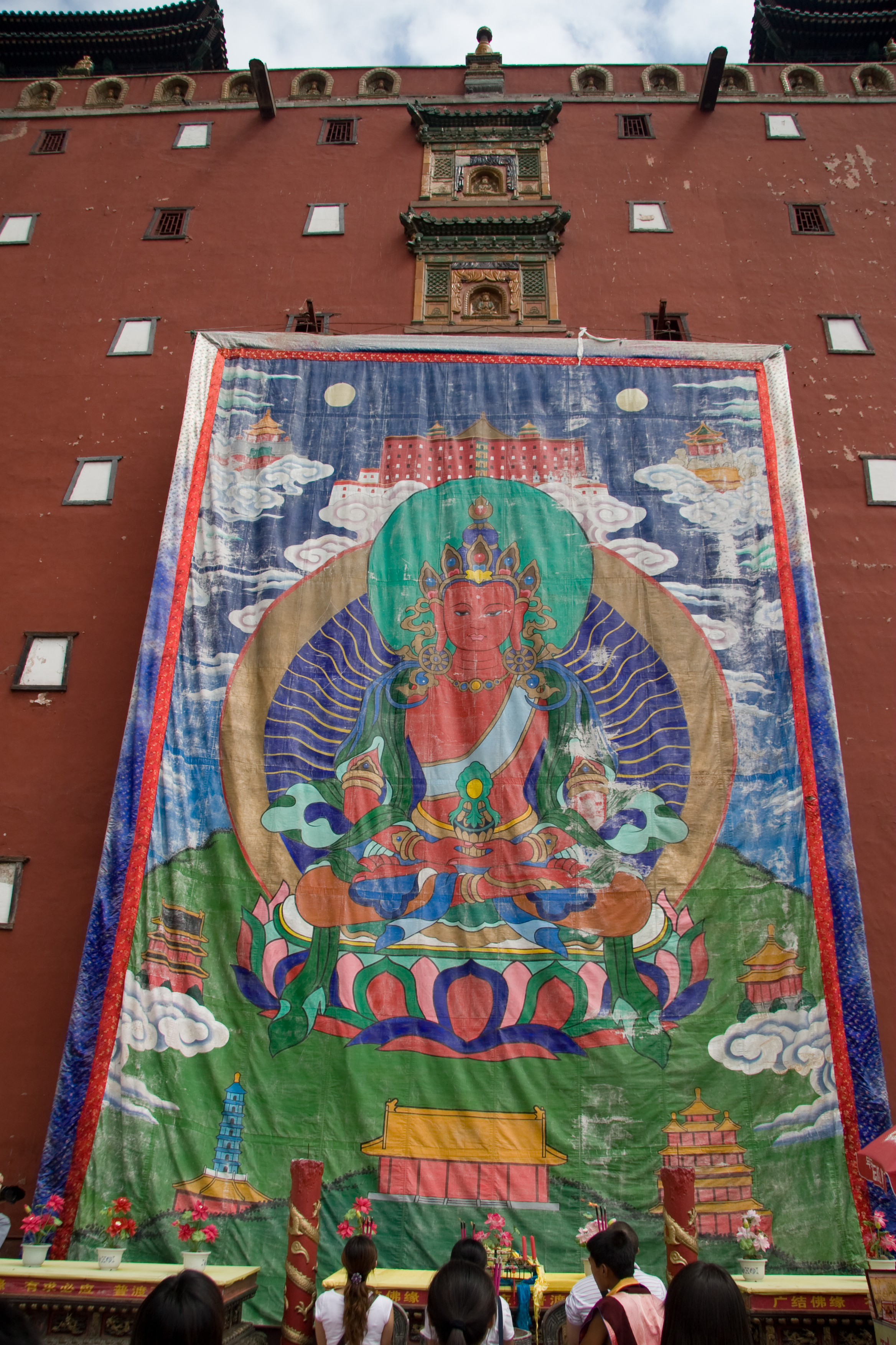 The Putuo Zongcheng Temple in Chengde, China